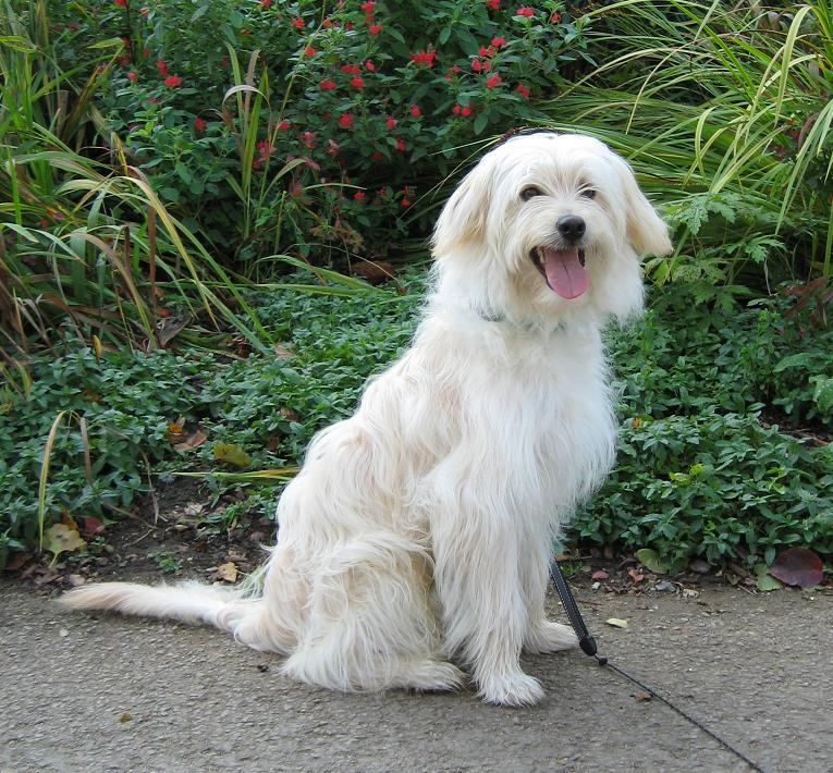 Pyrenean Sheepdog in a garden